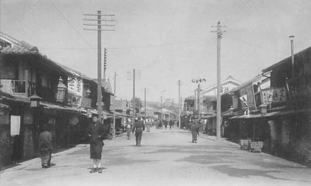 Himeji castle view from Himeji station(Himeji-ootemae-street). old photo taken about Taisho year.